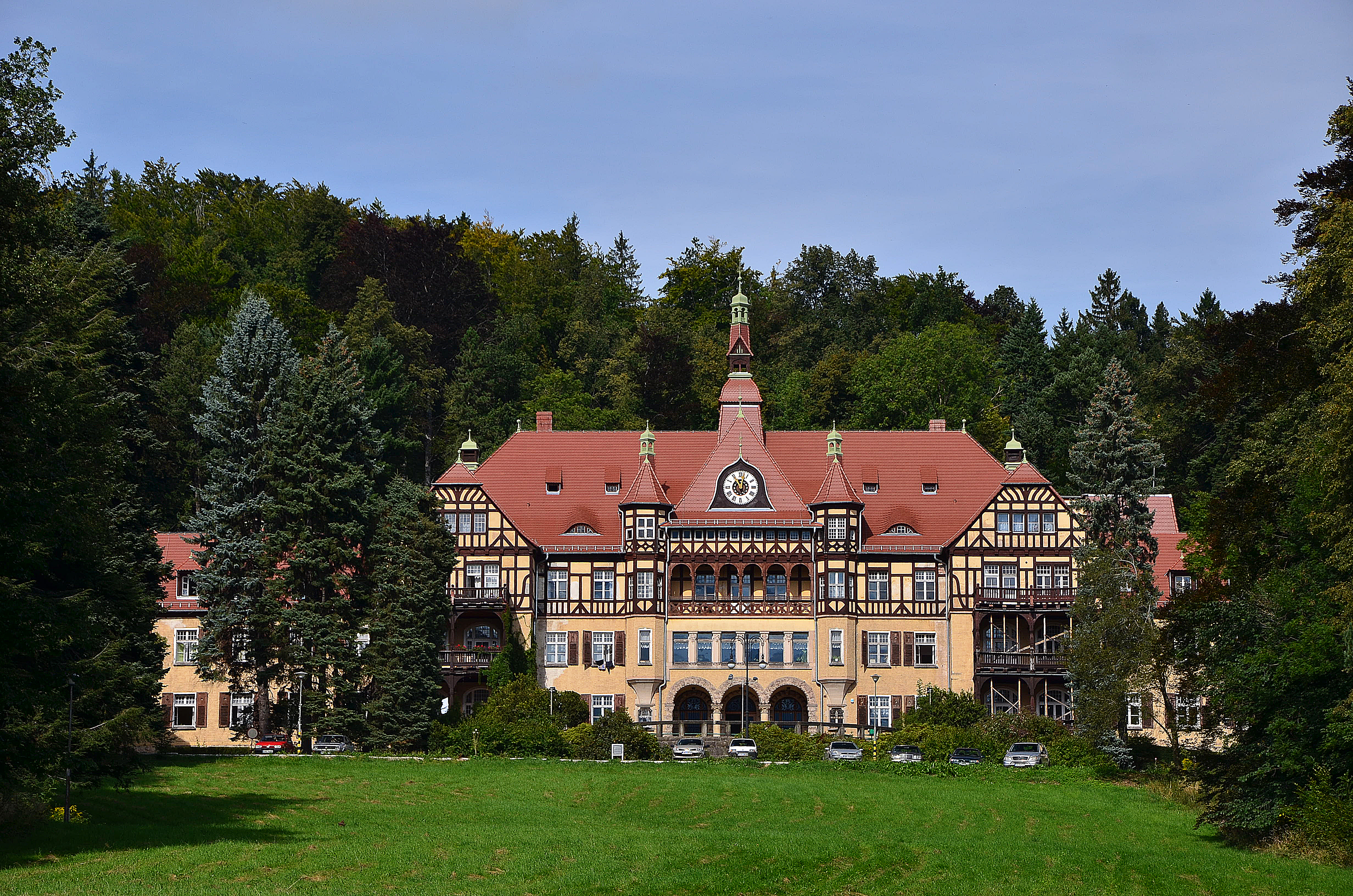 "Wysoka Łąka" hospital. Kowary. Poland.